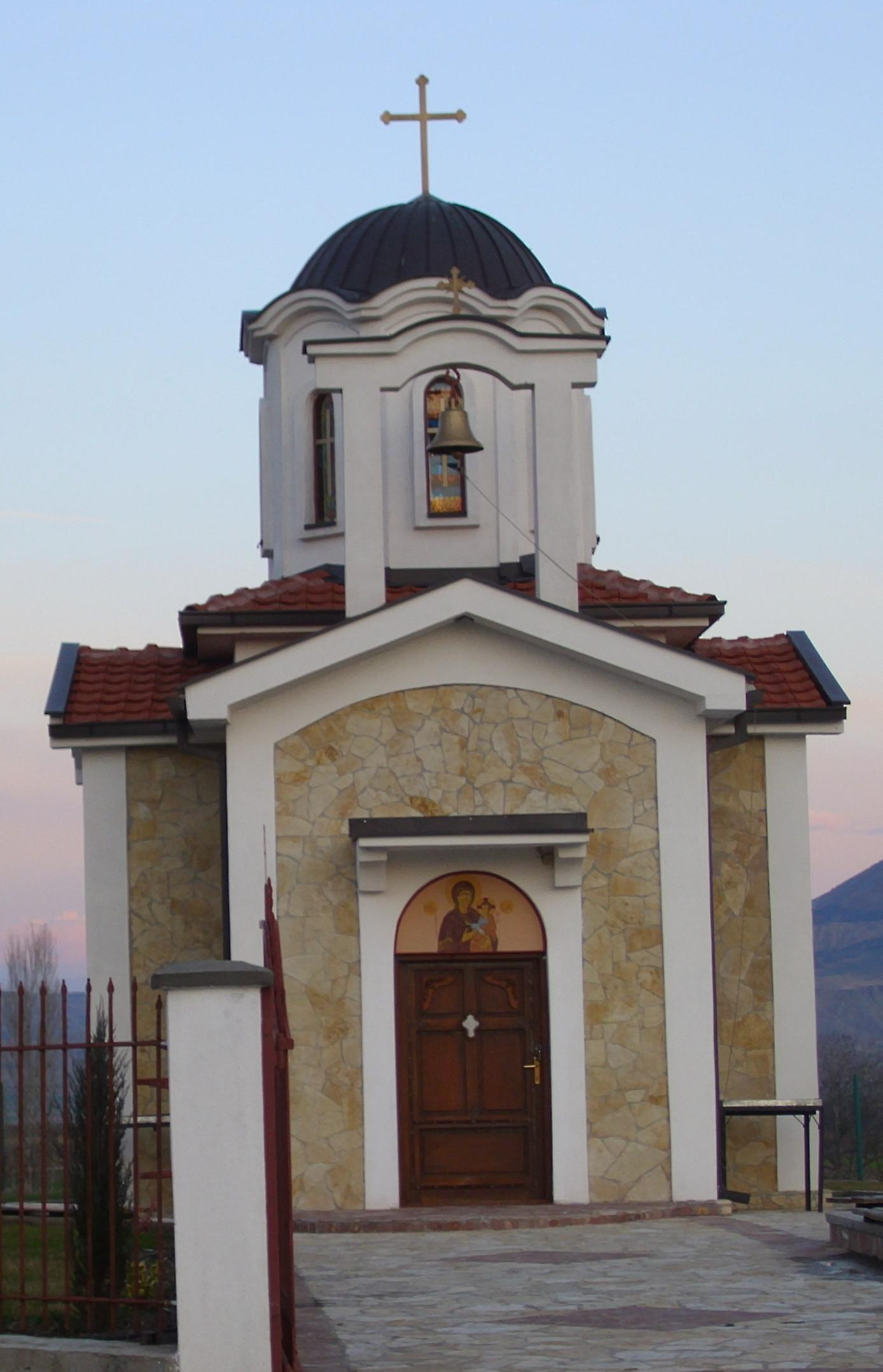 Dormition of the Theotokos Church in Saramzalino, Macedonia